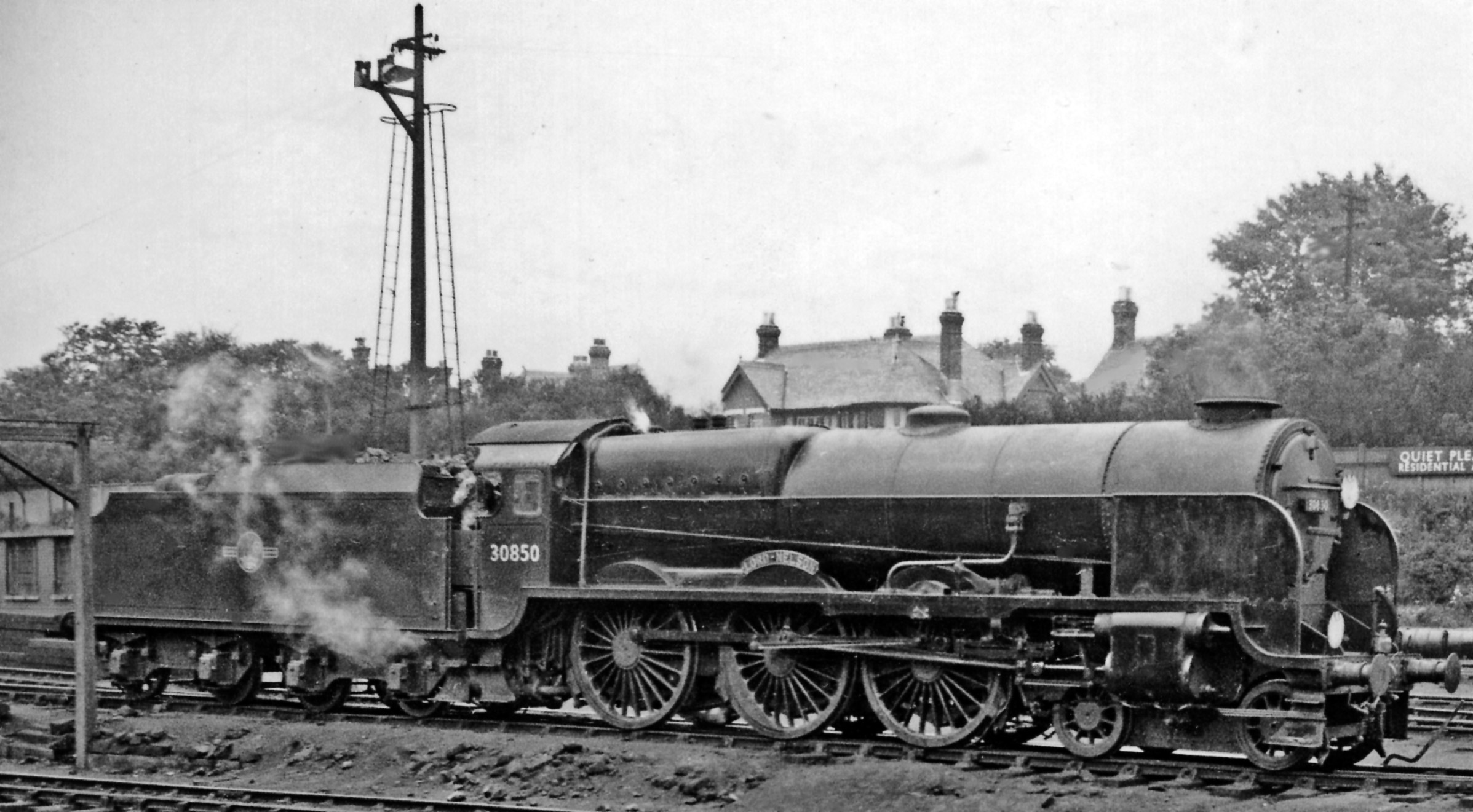 'Lord Nelson' at Bournemouth Locomotive Depot. View northward from west end of Bournemouth Central Station: LSW main line London etc. - Weymouth. No. 30850 'Lord Nelson' was the first of Maunsell's largest 4-6-0's, built in 8/26 - preceding by nearly two years further members of the class, and withdrawn in 8/62. It was preserved in the National Collection and is currently on the Mid-Hants Railway.